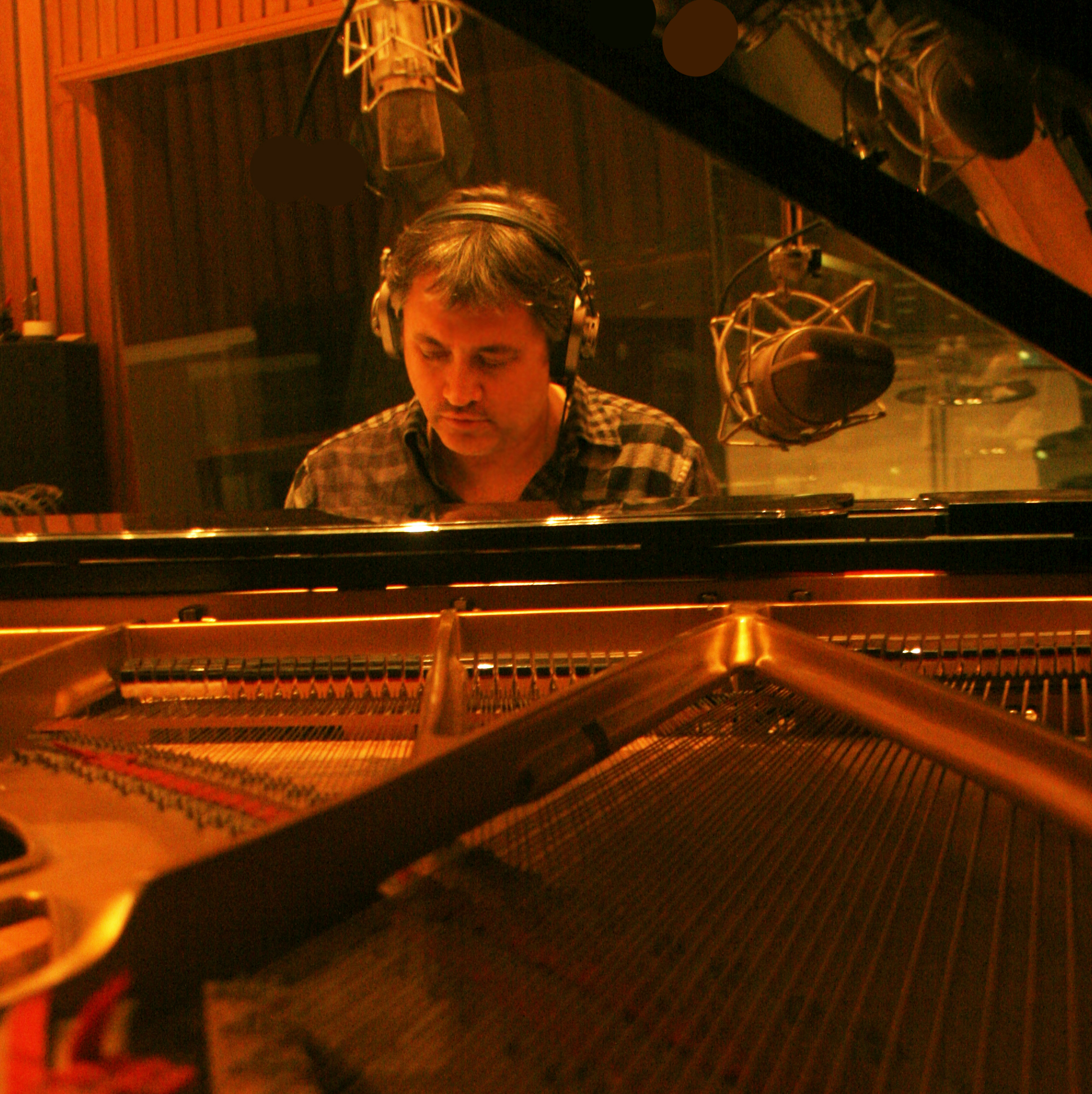 Less red version of Rob Shrock